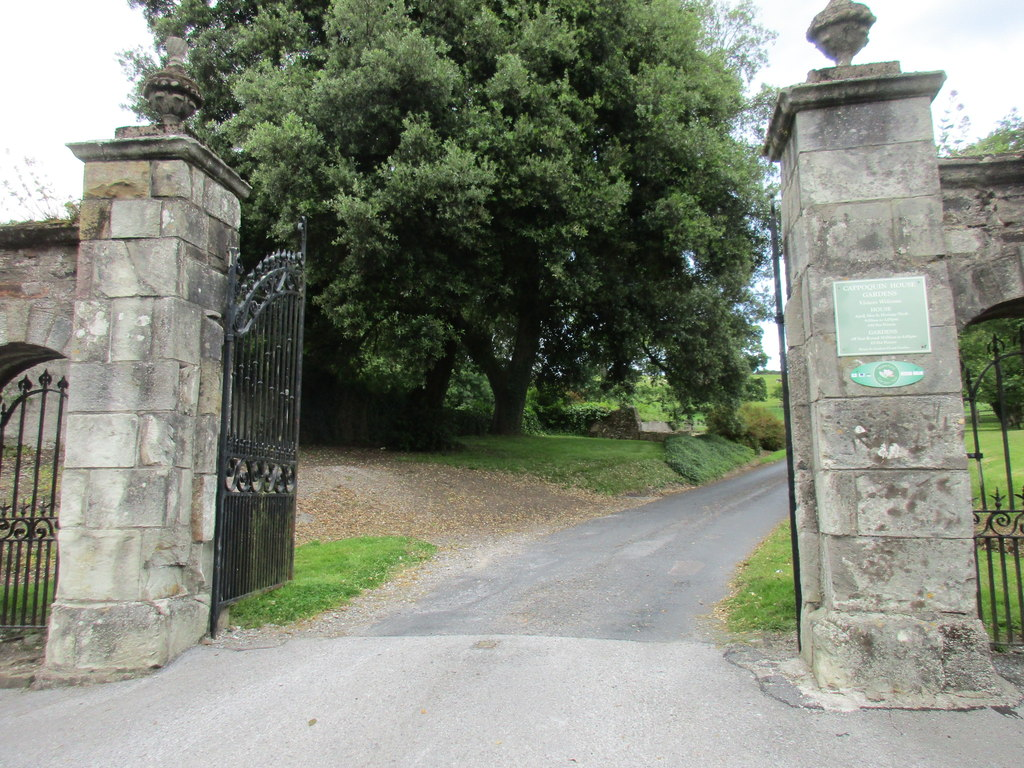 Entrance to Cappoquin House Gardens